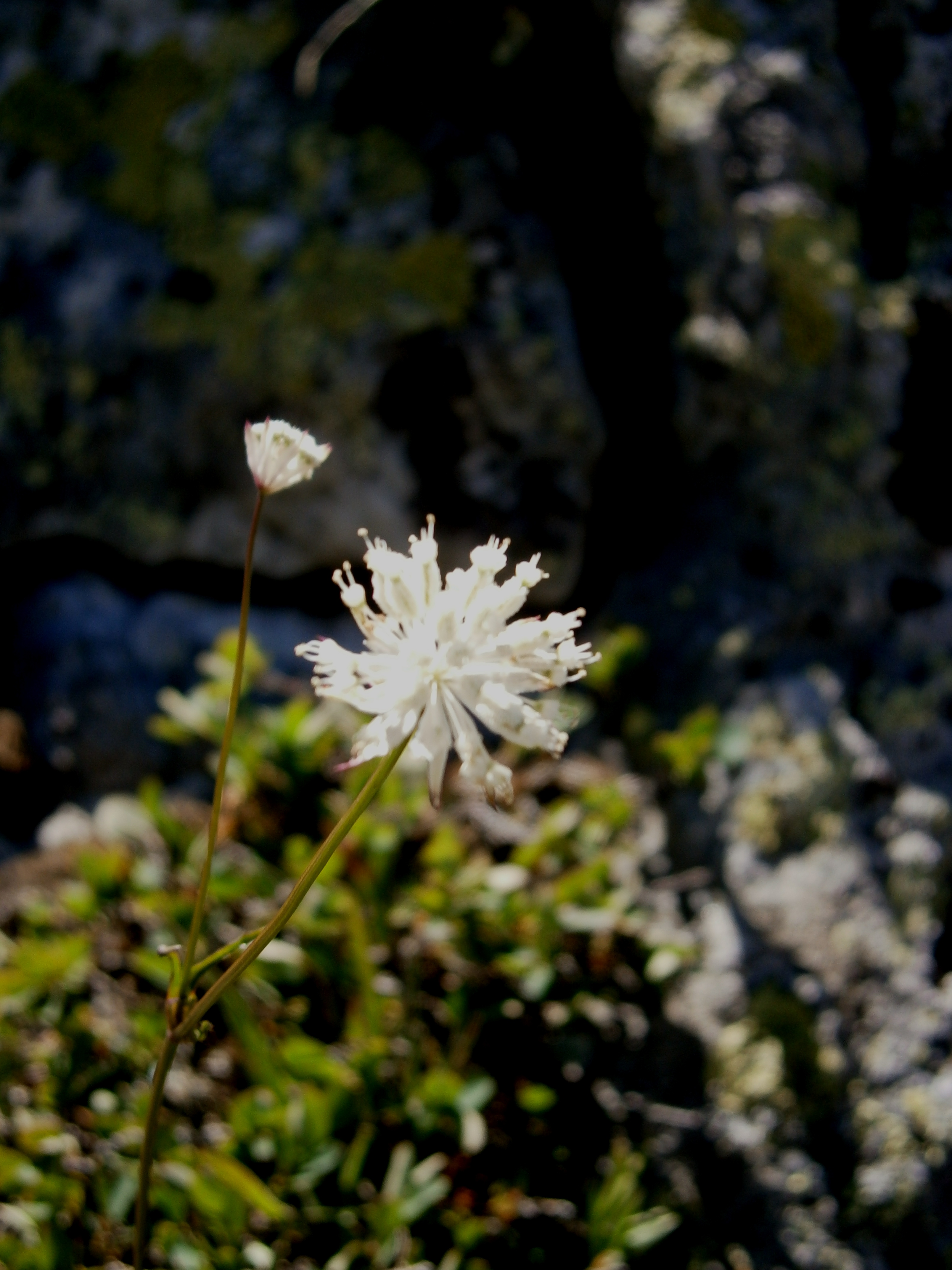 Astrantia minor close-up